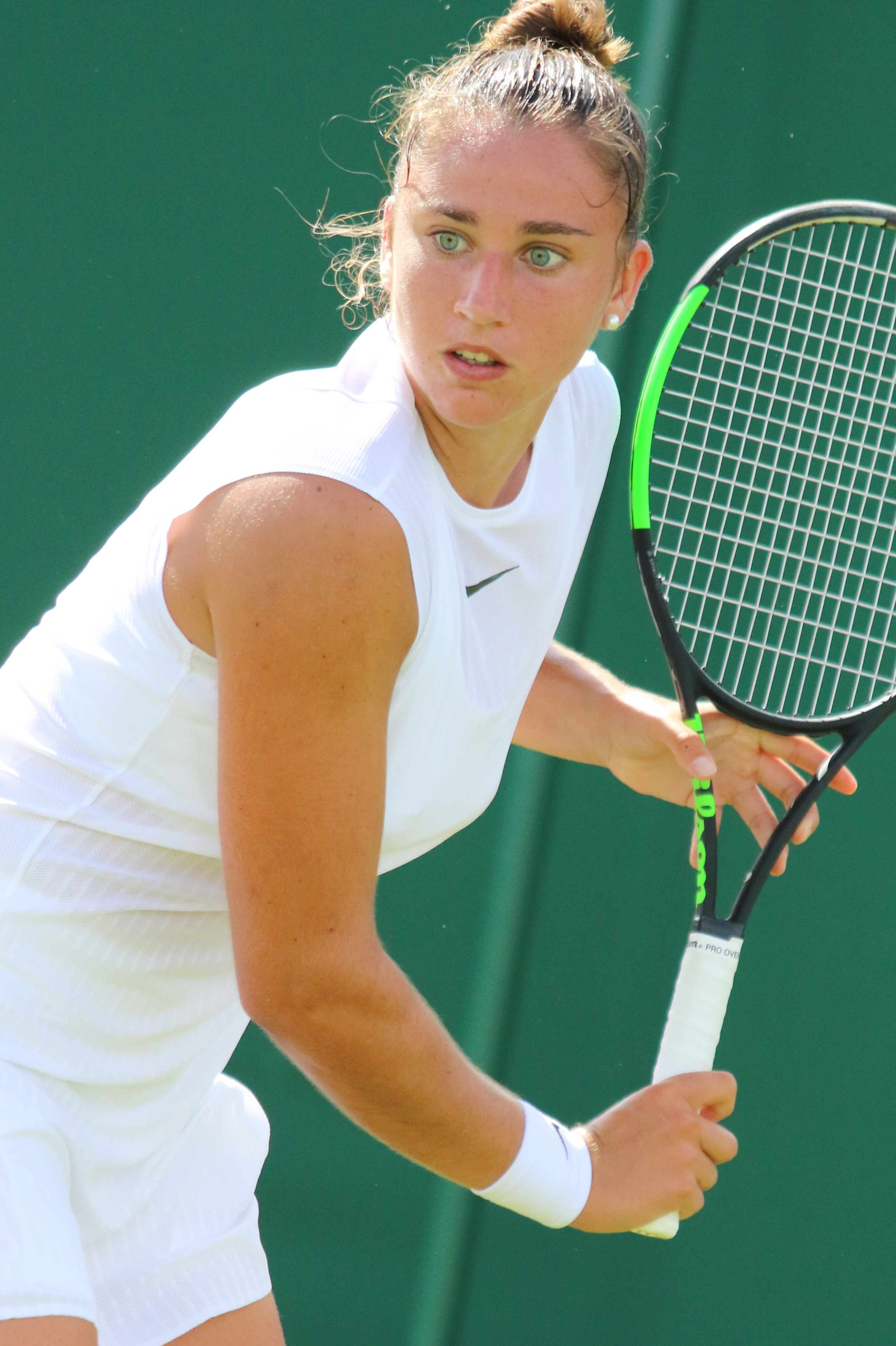 Sorribes Tormo WM17 (10)